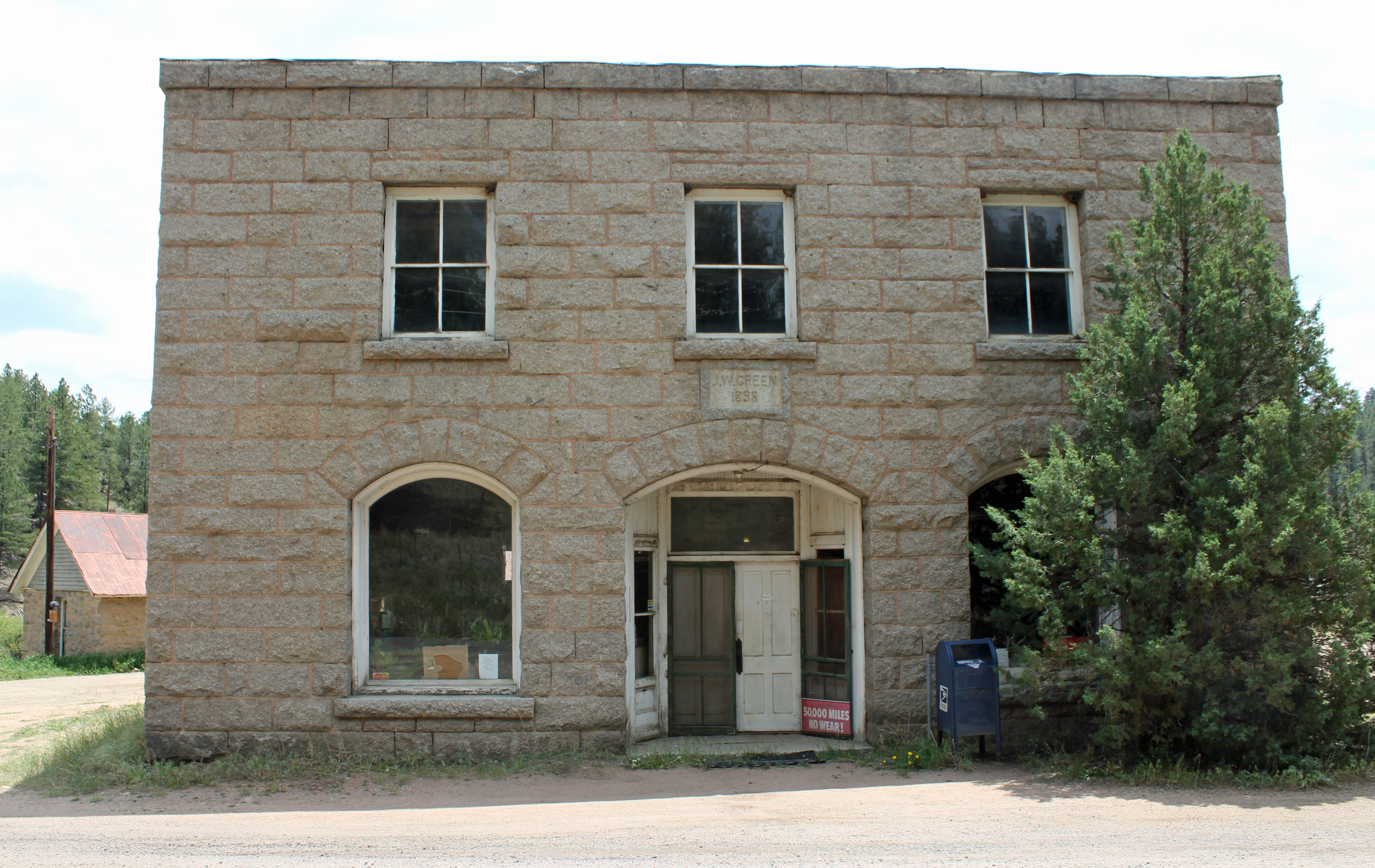 The Green Mercantile Store, located in Buffalo Creek, Colorado. The inscription above the front door says, "J.W. Green 1898."